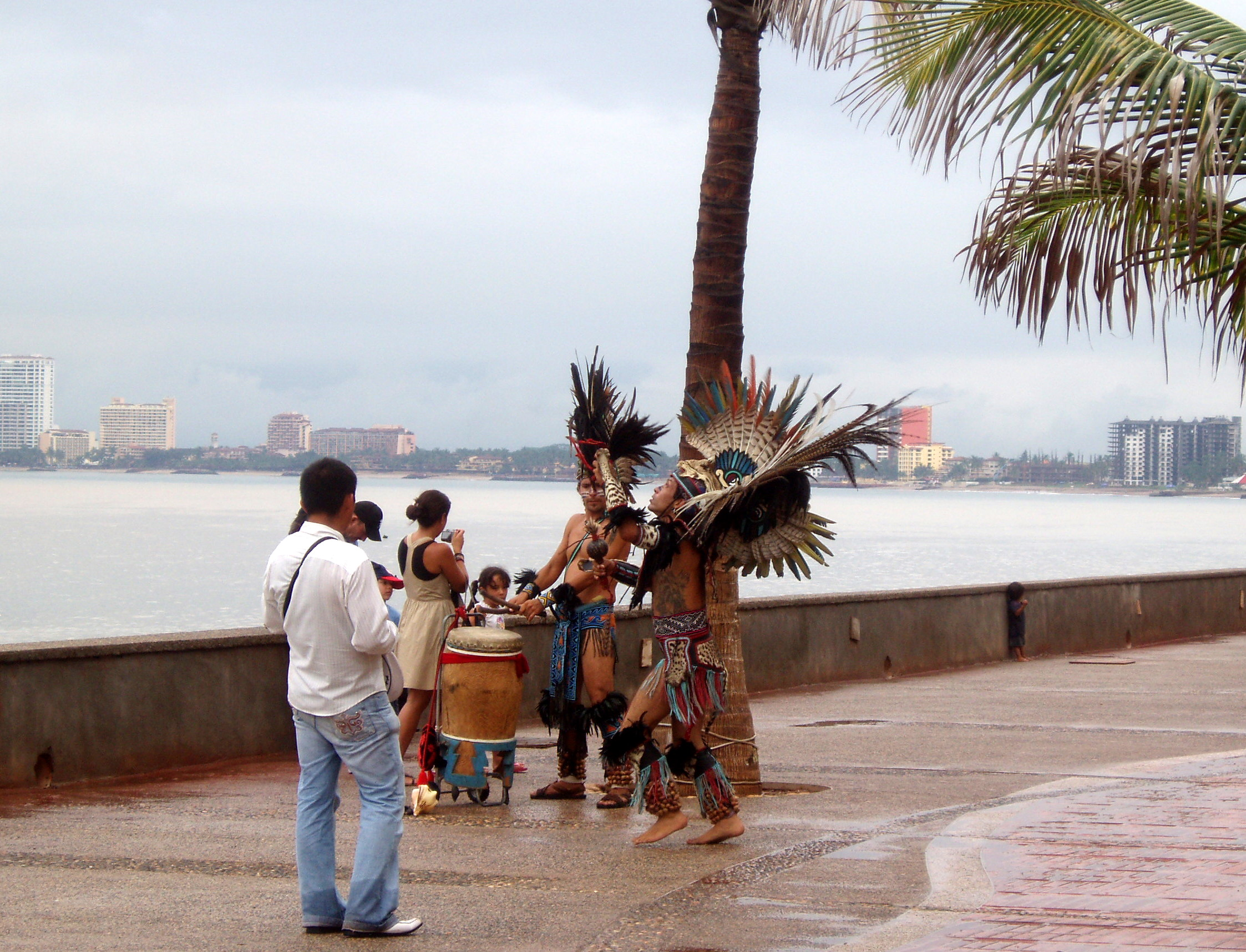 Mexican Indians on Malecon in Vallarta